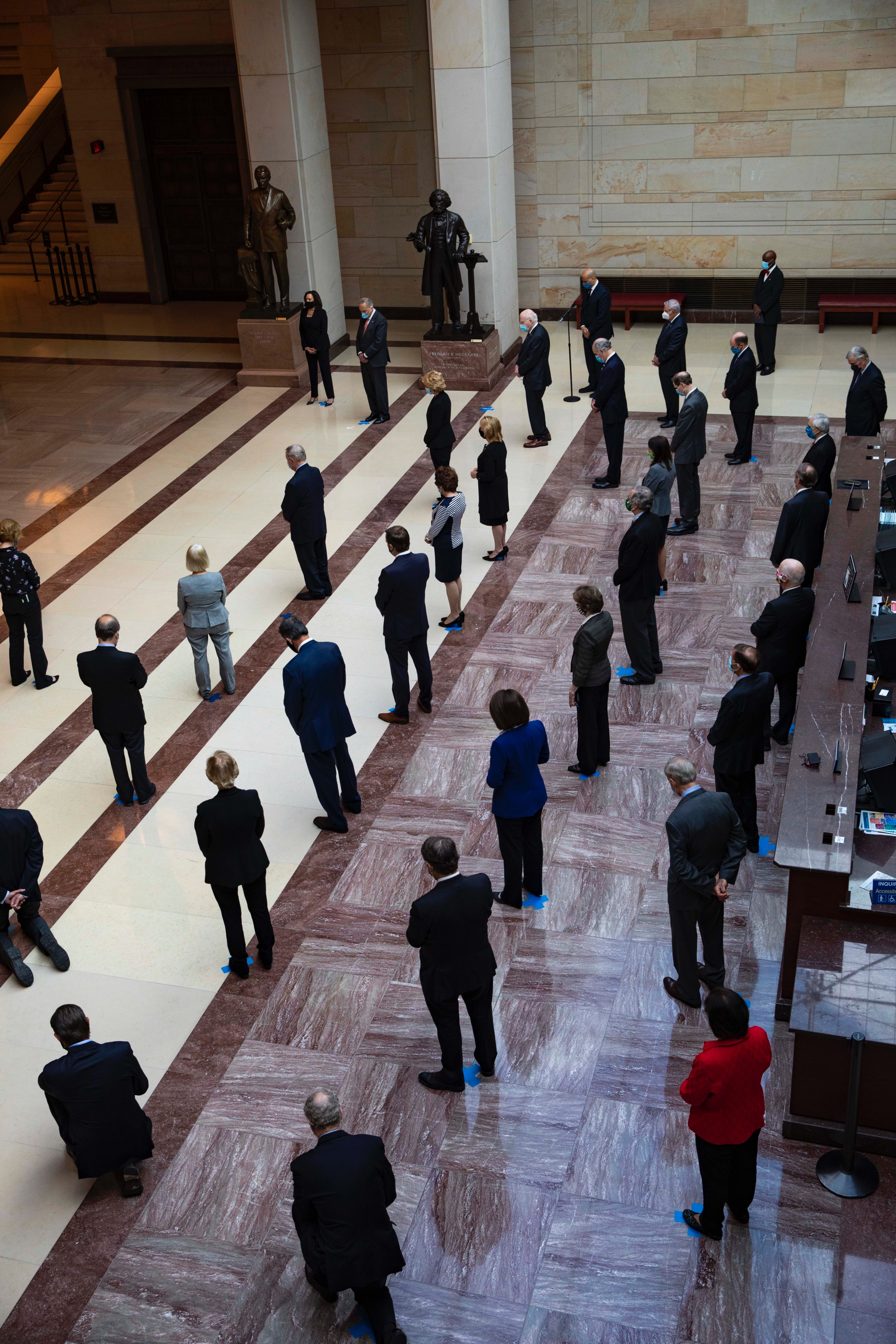 8 minutes & 46 seconds of silence For George Floyd For Ahmaud Arbery For Breonna Taylor For countless others who lost their lives to racialized violence. For those peacefully protesting for justice. Grateful for my @SenateDems colleagues who joined together today in solidarity.